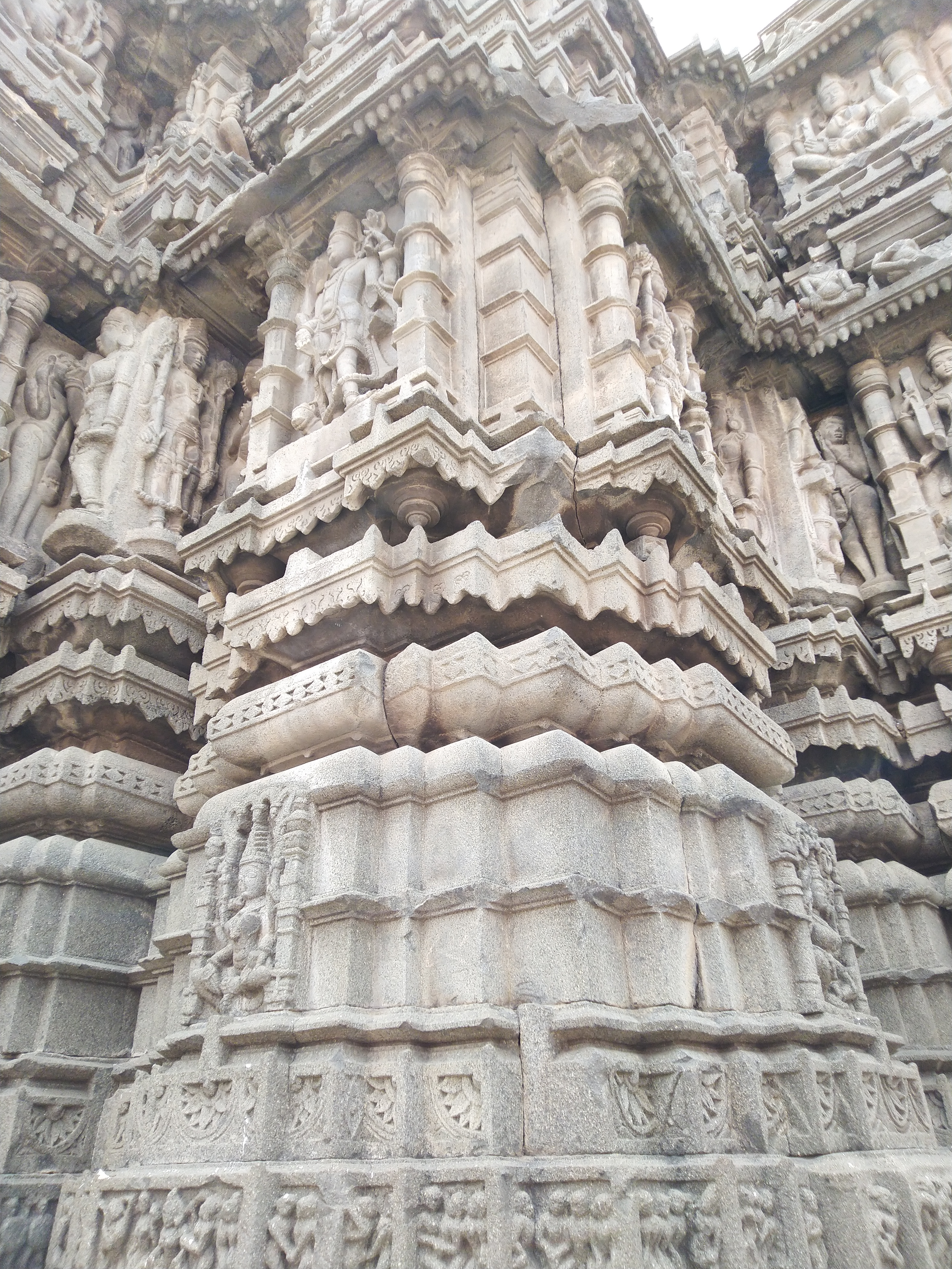 Side view of the temple.